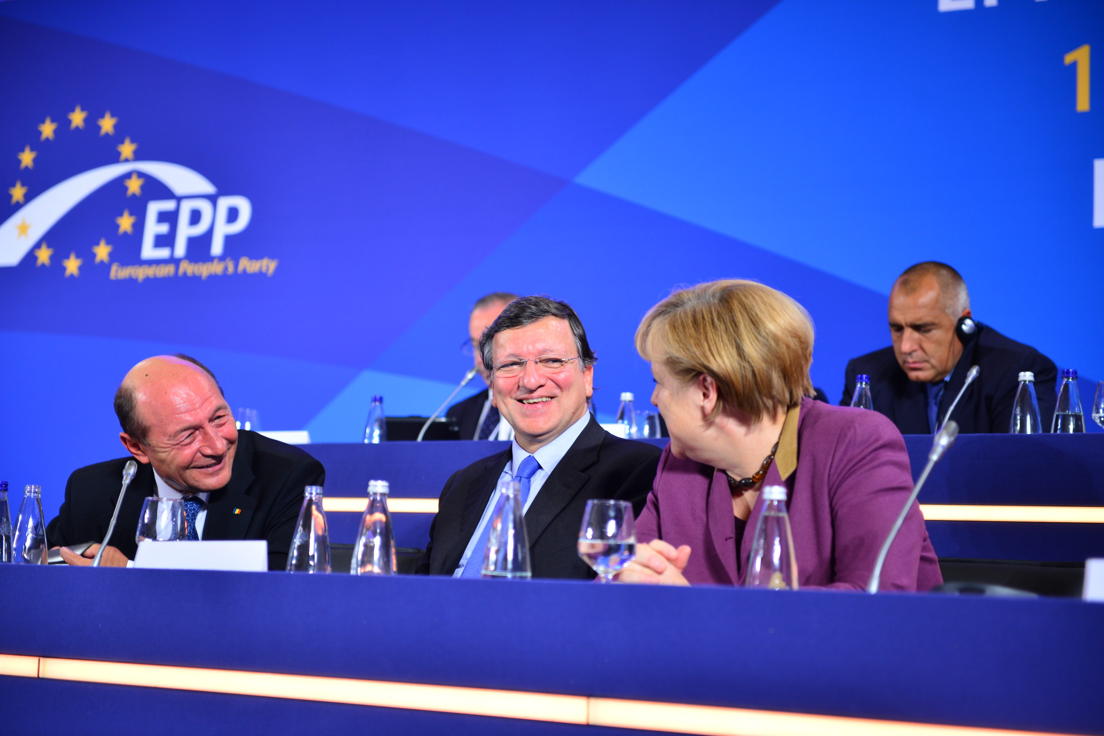 EPP_Congress_6123